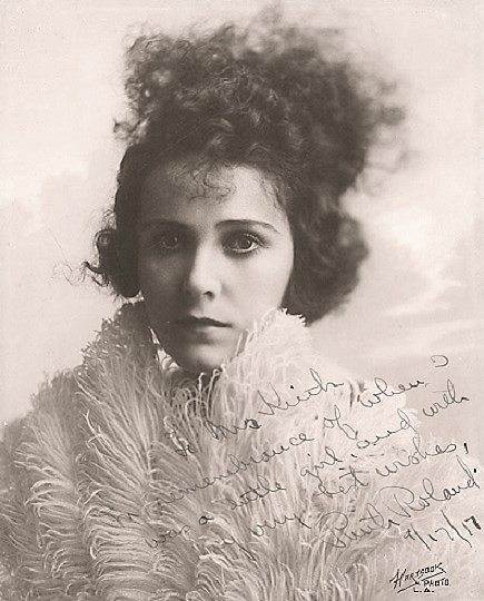 Ruth Roland